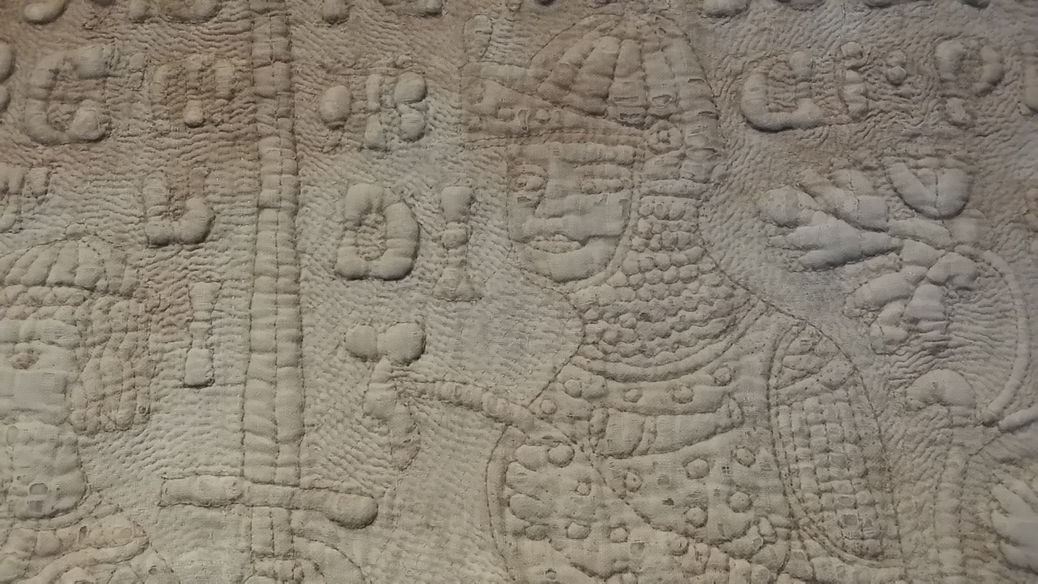 Photograph of the 14th century Tristan Quilt on display at the V&A Museum.